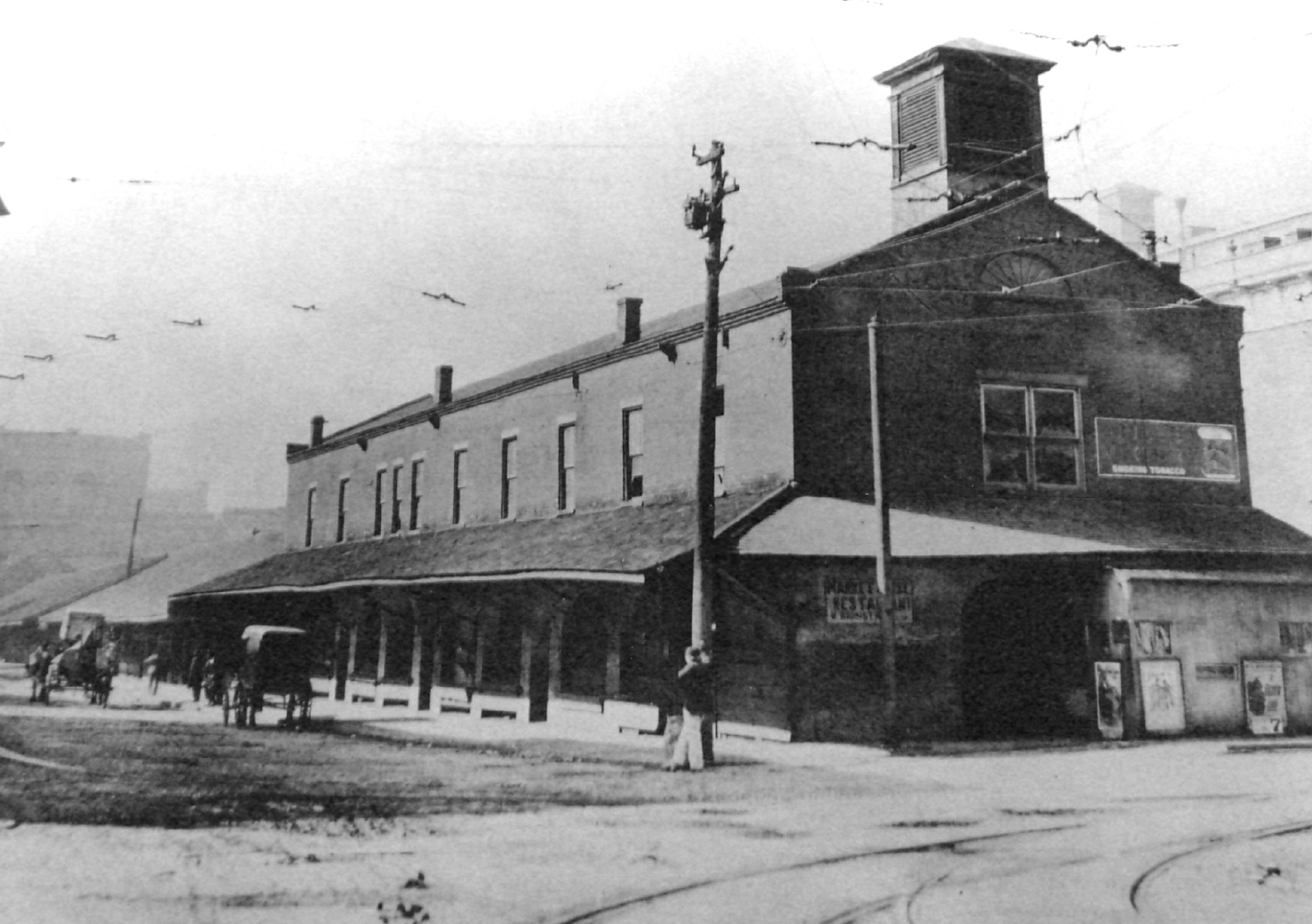 The Market House and Town Hall in Wheeling, West Virginia, around 1900. Erected in 1822, weekly slave auctions held here.